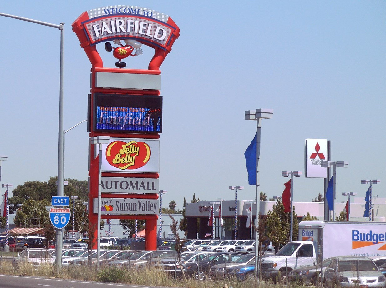 A sign next to northbound Interstate 80 which welcomes visitors to Fairfield. Photographed on July 24, 2006 by user Coolcaesar.